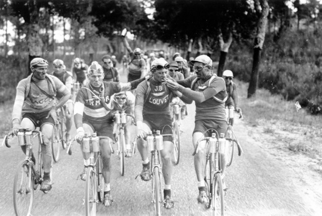 Julien Vervaecke and Maurice Geldhof smoking a cigarette at the 1927 Tour de France. Gustaaf Van Slembrouck is the one lighting the cigarette.